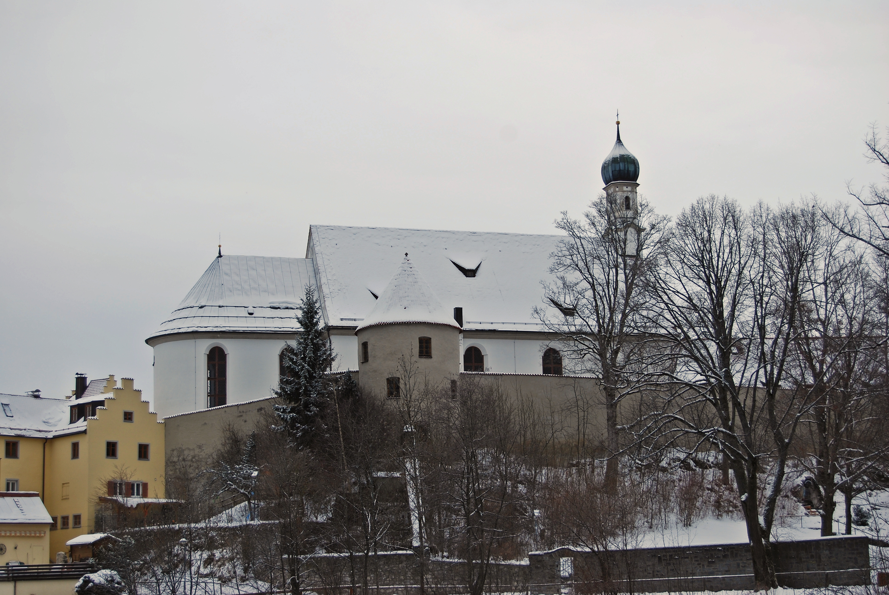 Franciscan Church of Füssen, Bavaria.